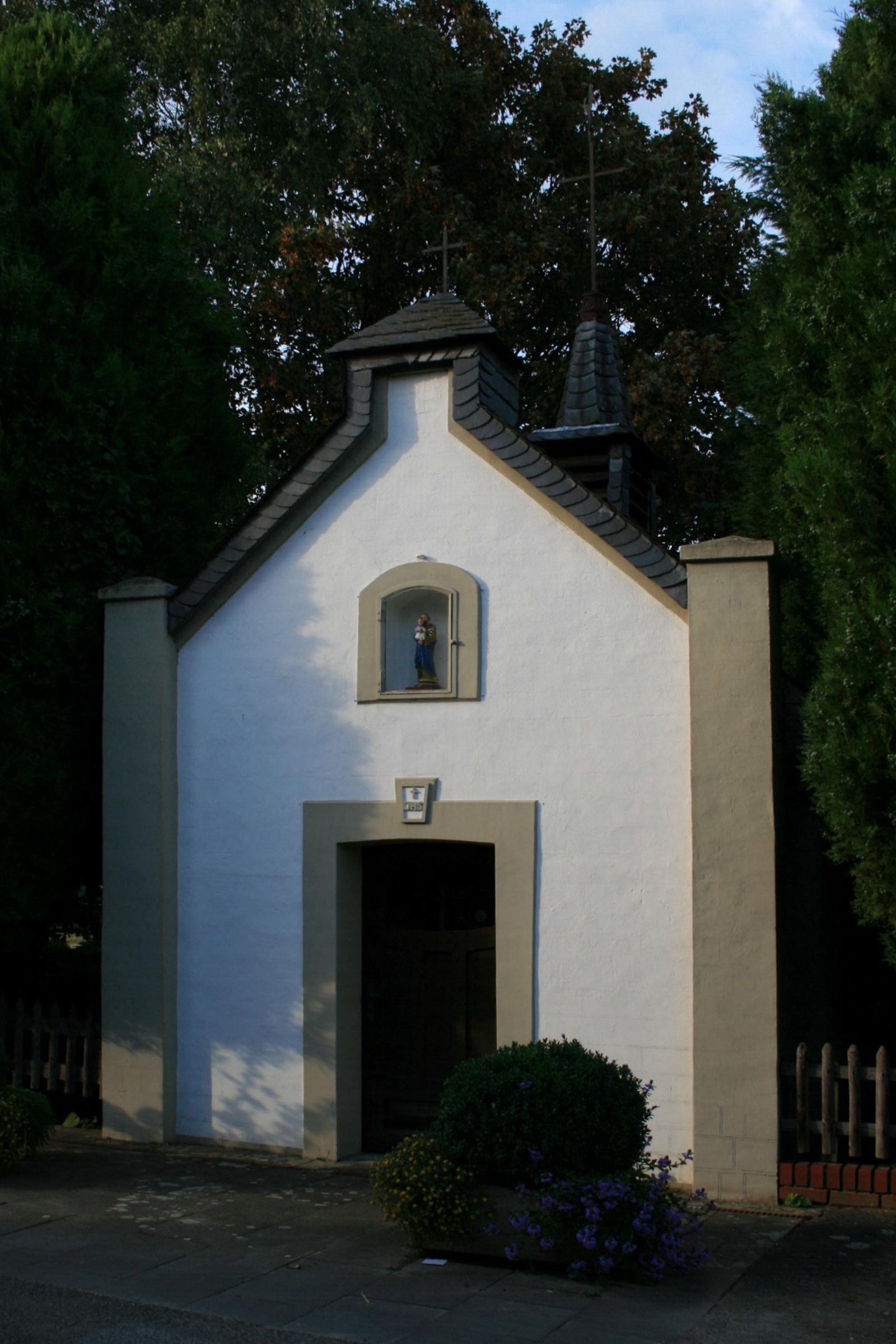 Cultural heritage monument No. S 006 in Mönchengladbach